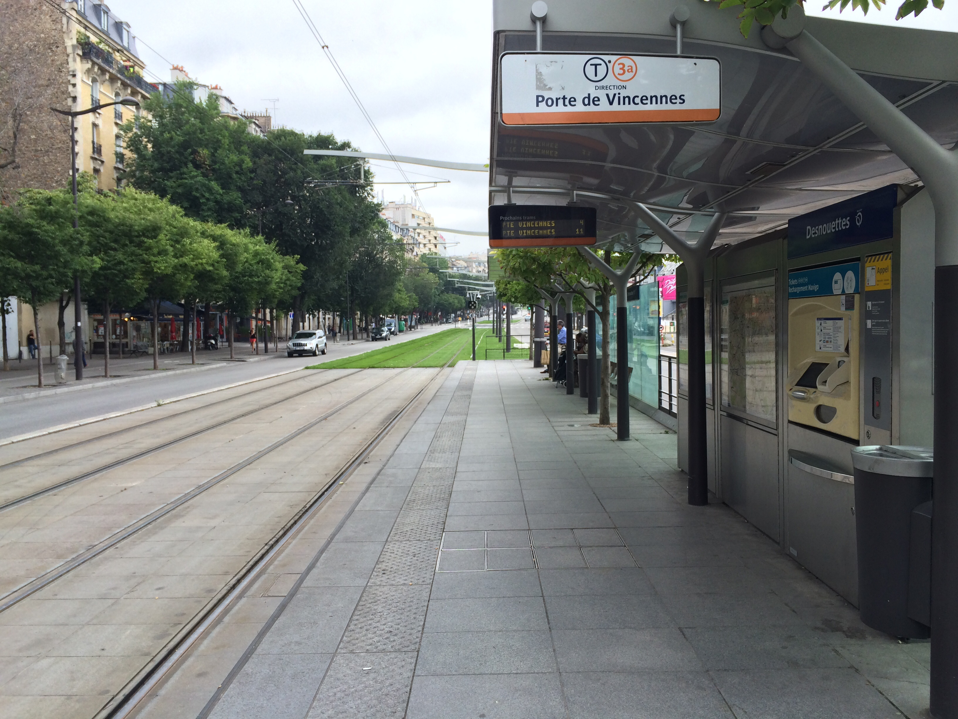 T3 - station Desouette